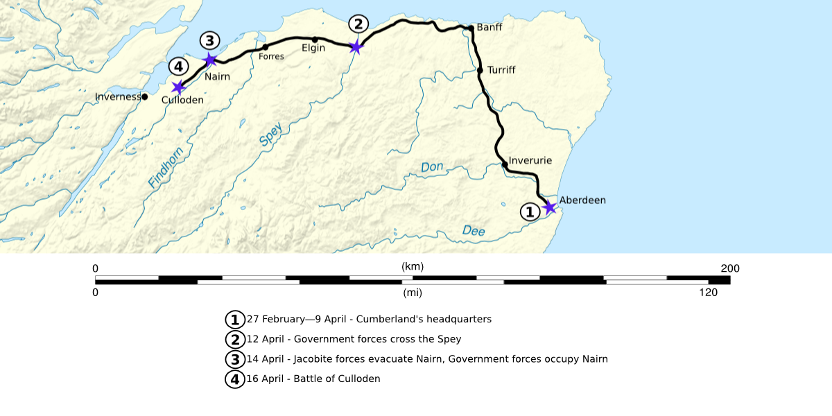 Map showing the advance of Government forces led by Cumberland, in the spring of 1746. The route shown ends at the site of the Battle of Culloden.